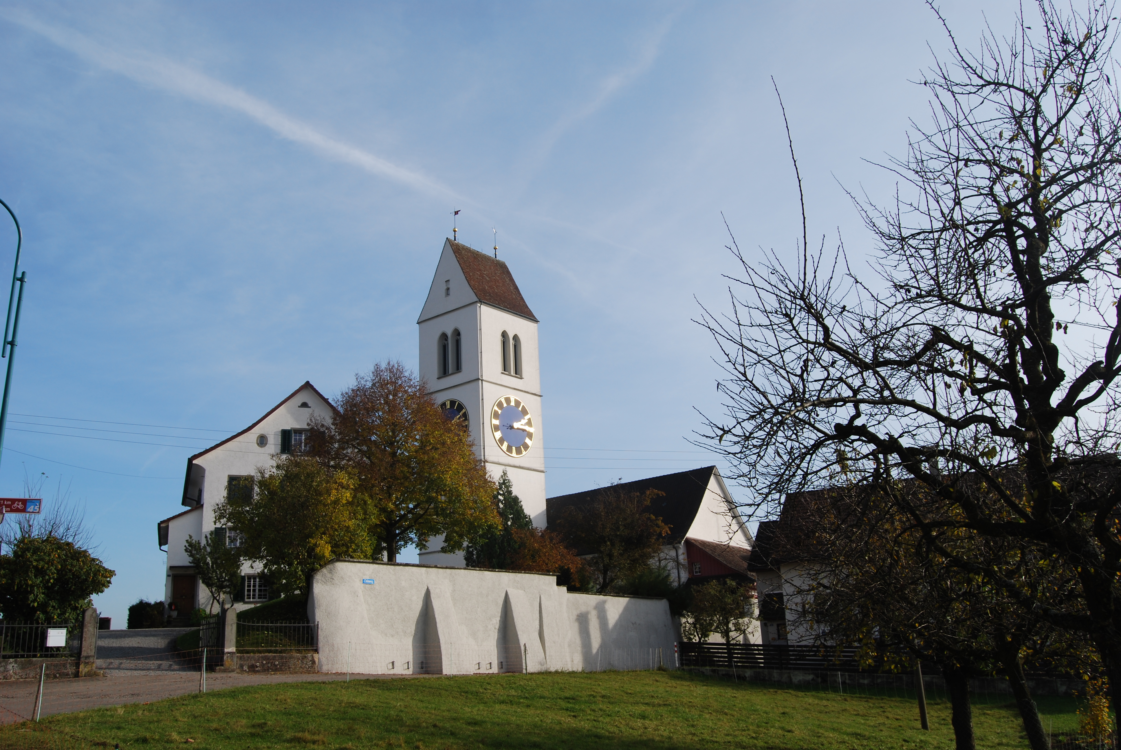 Church of Dinhard, canton of Zürich, SwitzerlandEsperanto: Preĝejo de Dinhard, Kantono Zuriko, Svislando